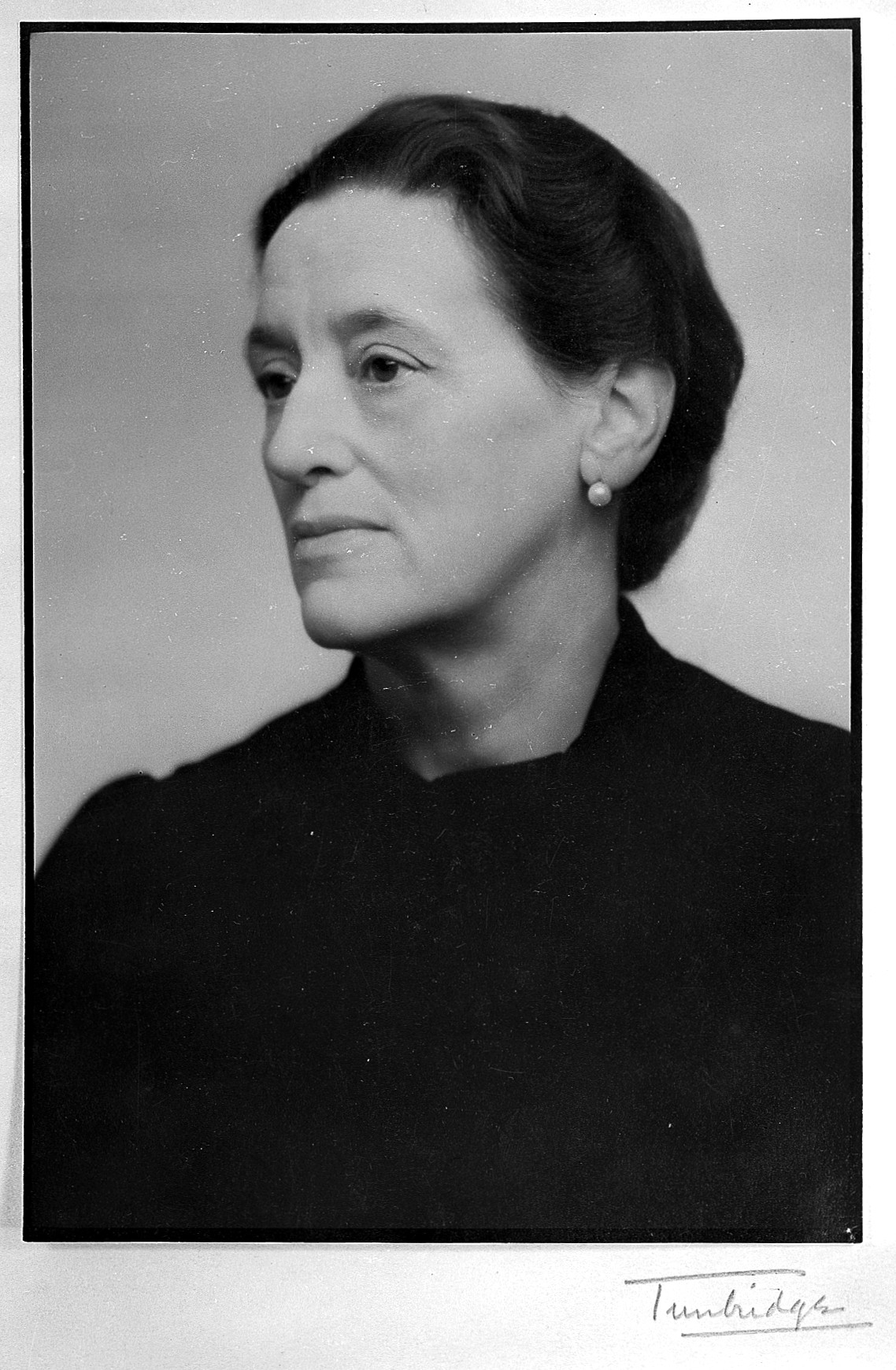 President of the Medical Women's Federation, 1958- 1962; physician and President of Medical Women's International Association 1958-1962. First woman member of the British Medical Association Council. Iconographic Collections Keywords: Janet Aitkin